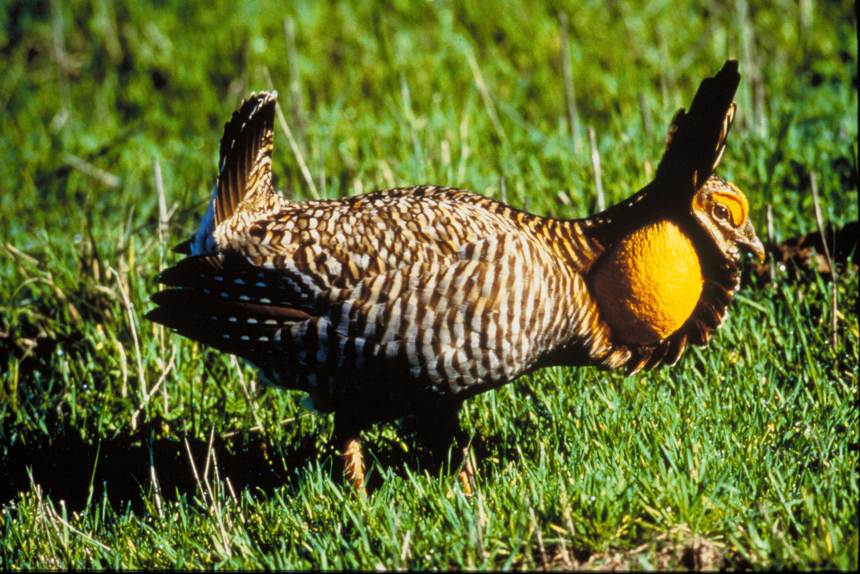 Attwater's Prairie Chicken (Tympanuchus cupido attwateri), related to the now extinct Heath hen, is a highly endangered subspecies. Along the US Texas and Louisiana coast there were over a million one hundred years ago. There were sixty remaining in the wild based on a 1998 population census with a total population of 260. Transwiki approved by: User:Dmcdevit. This image was copied from en. The original description was